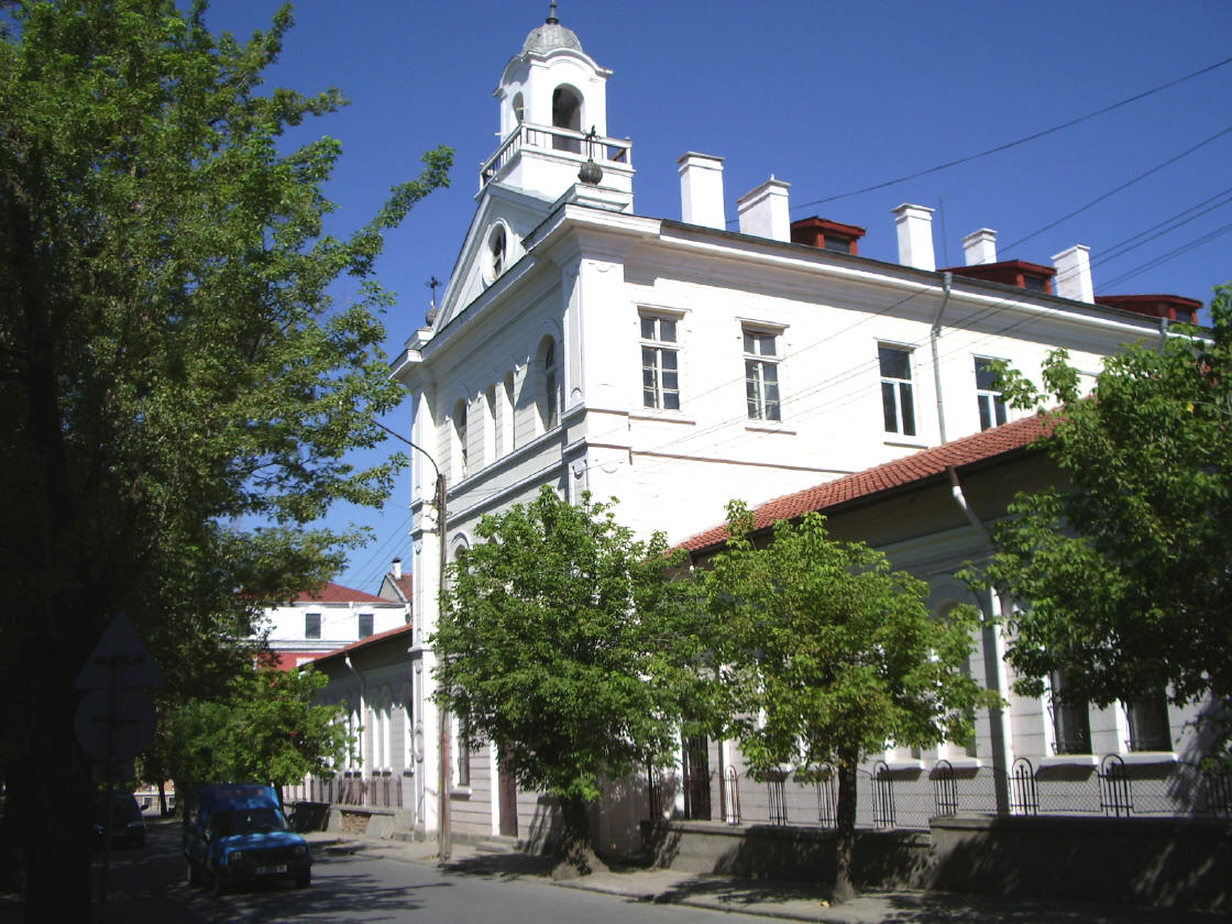 The catholic church in Yambol, Bulgaria